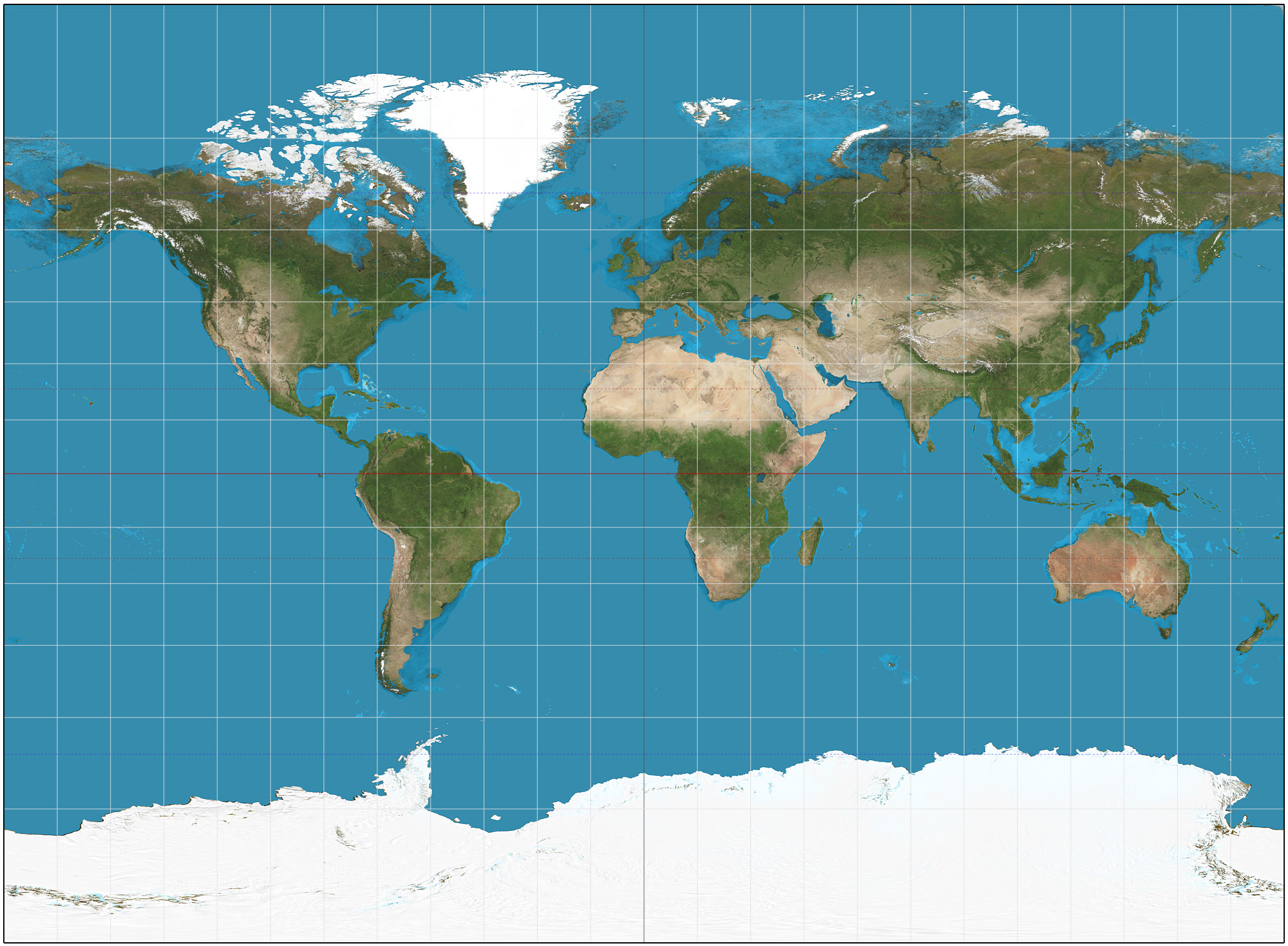 The world on Miller projection. 15° graticule. Imagery is a derivative of NASA’s Blue Marble summer month composite with oceans lightened to enhance legibility and contrast. Image created with the Geocart map projection software.